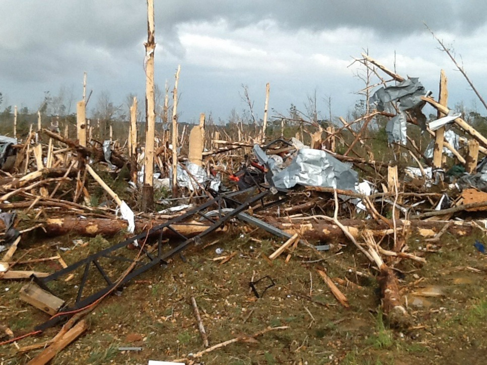 Extreme tree damage from an EF4 tornado near Louisville, MS.